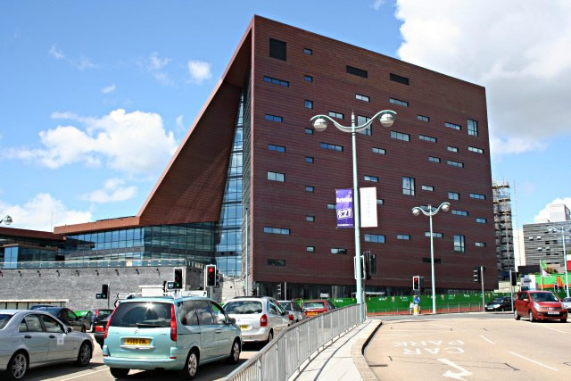 University of Plymouth Arts Block